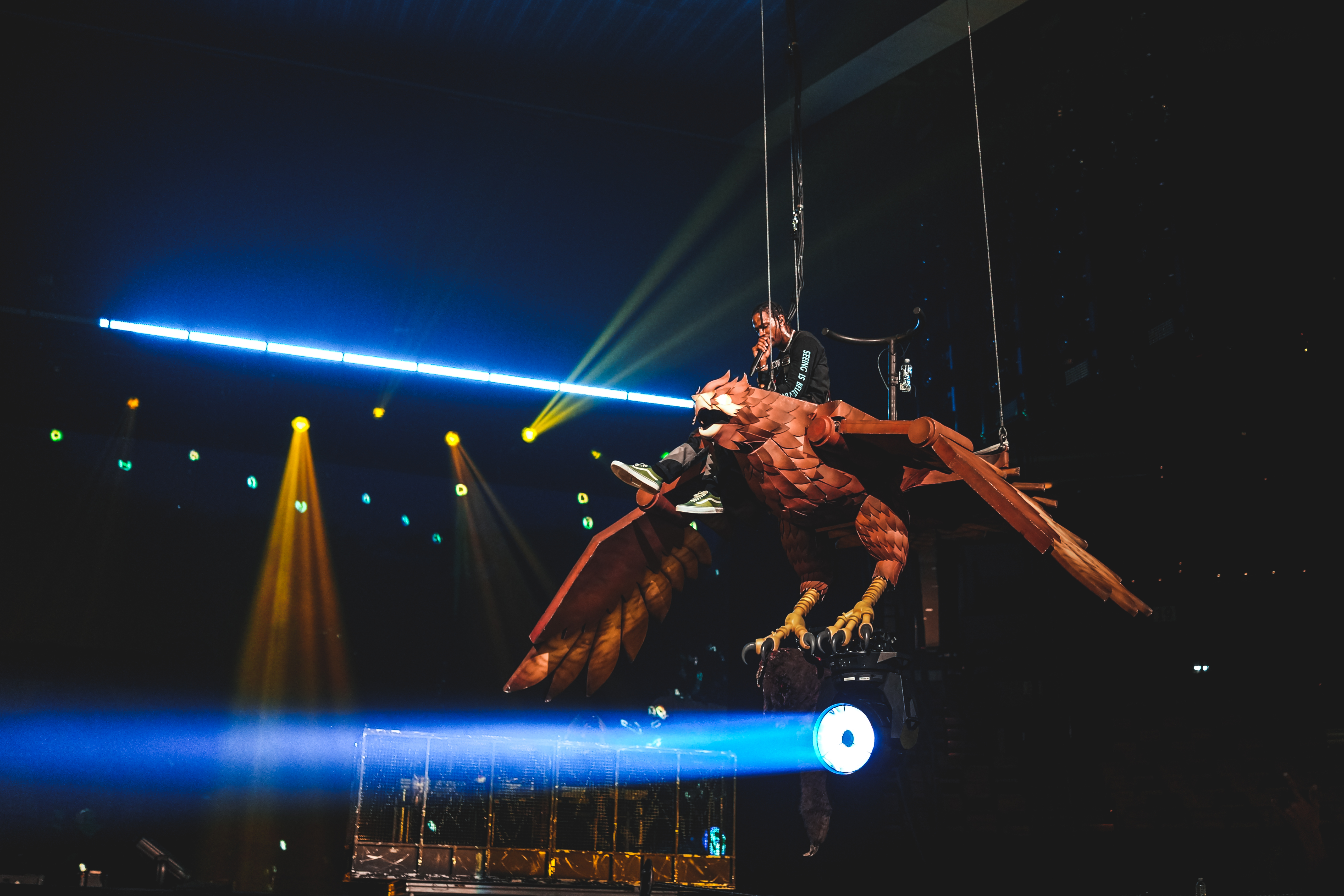 Kendrick Lamar performing for a concert at TD Garden on July 22, 2017 in Boston, Massachusetts on the The DAMN. Tour.